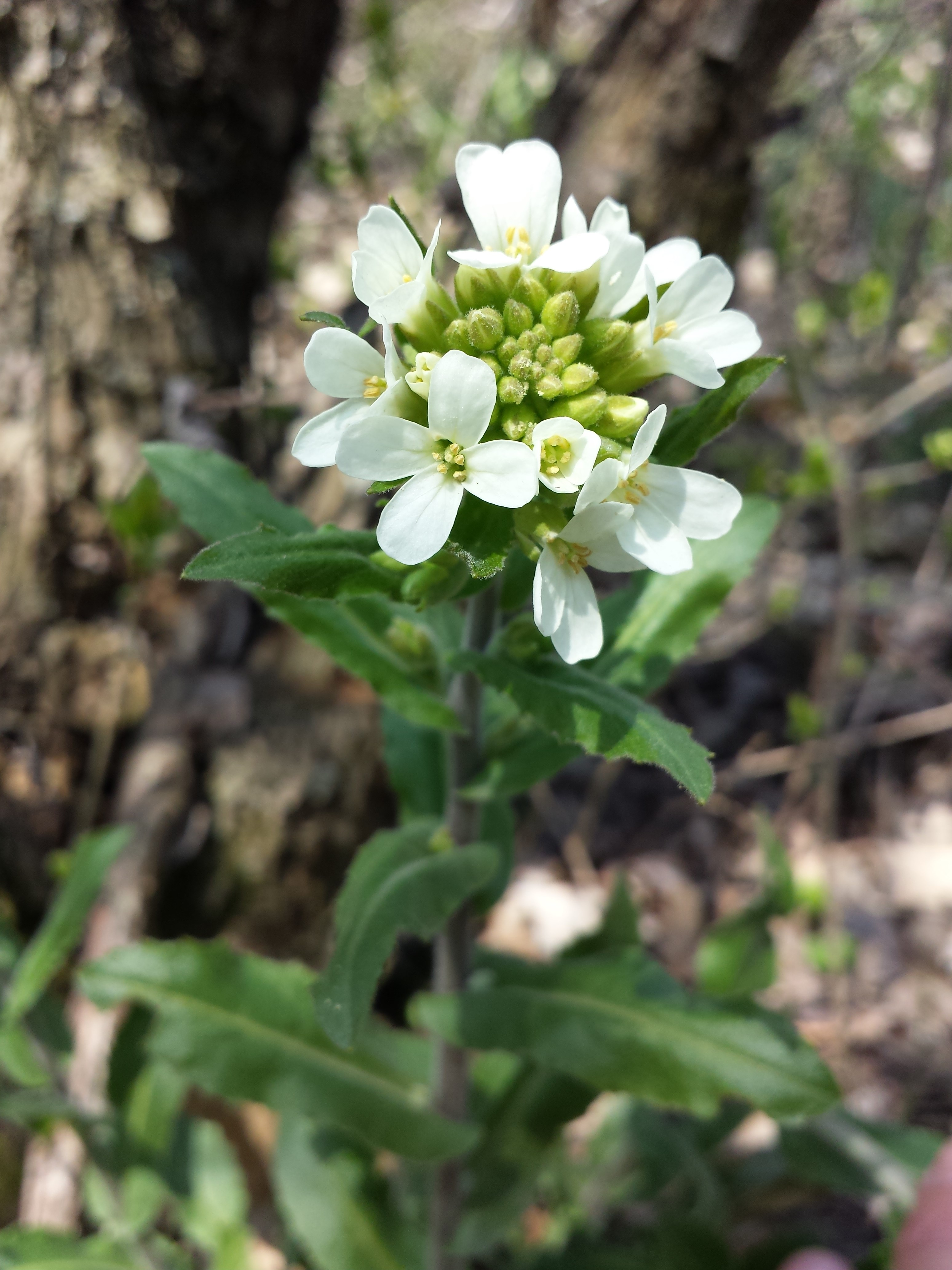 Habitus Taxonym: Pseudoturritis turrita ss Fischer et al. EfÖLS 2008 ISBN 978-3-85474-187-9 Location: Hexenberg (Hundsheimer Berge), district Bruck an der Leitha, Lower Austria - ca. 400 m a.s.l. Habitat: rock steppe